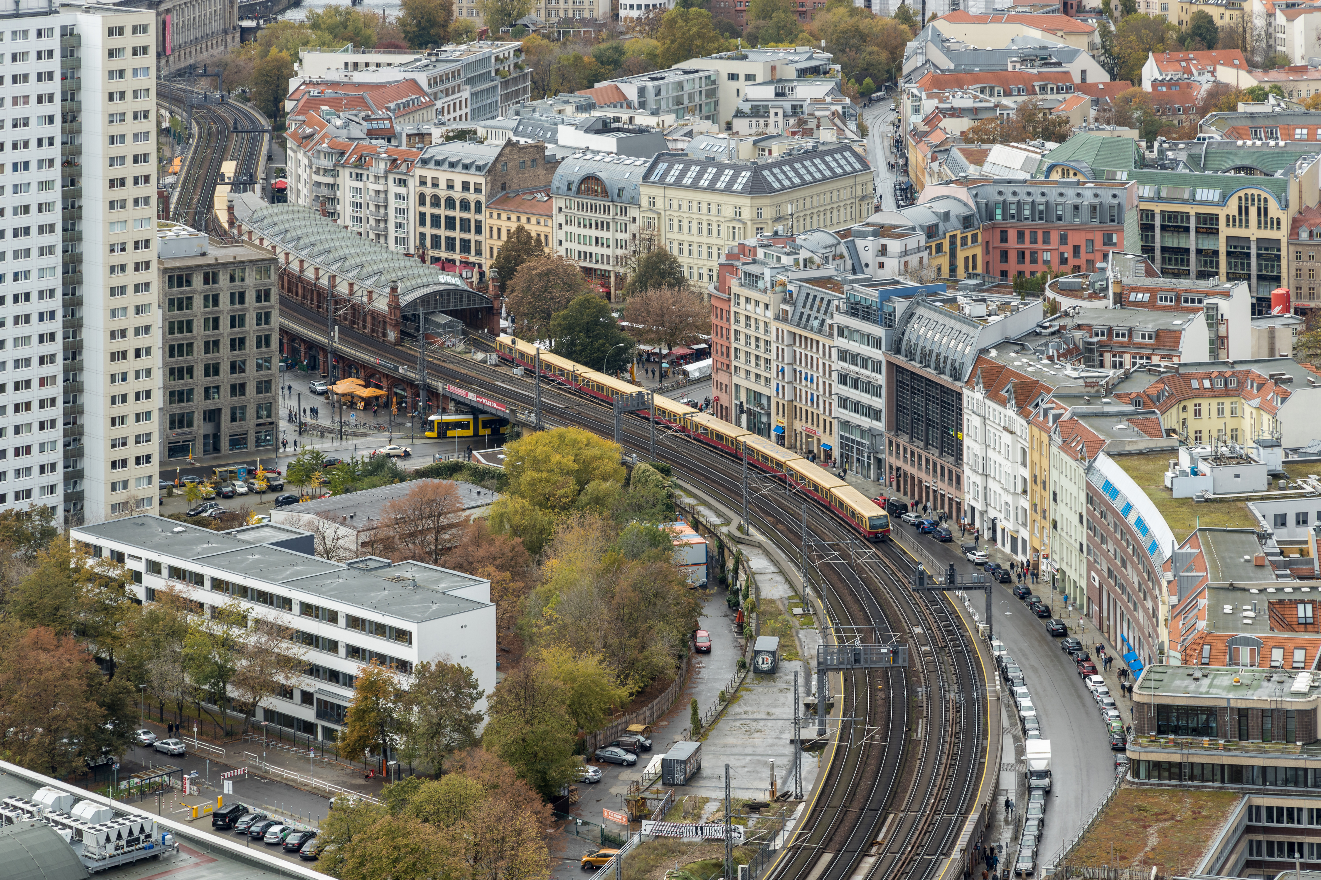 Berlin: View from Hotel Park Inn to railway lines and the station Hackescher Markt